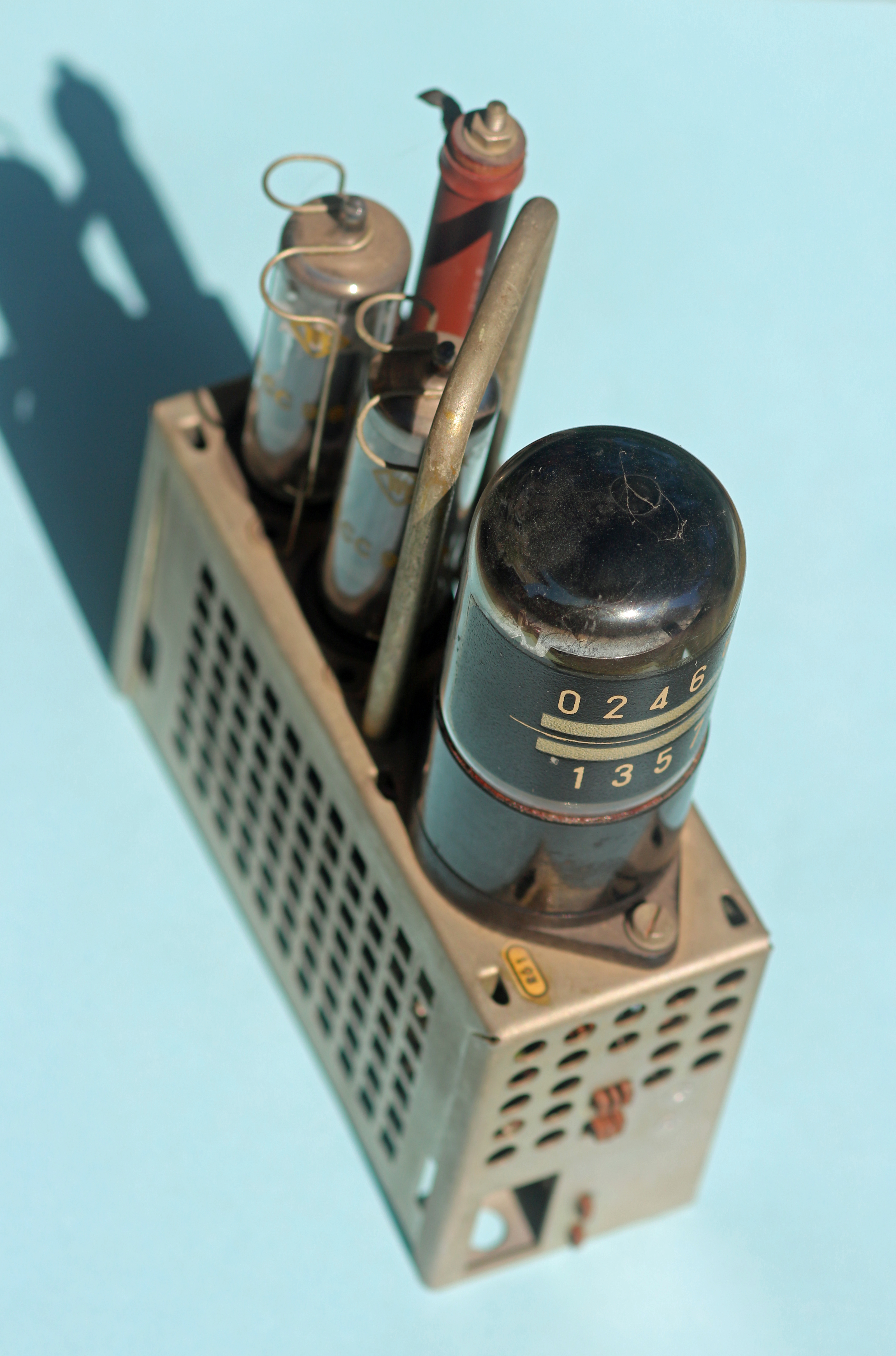 Counter unit with the vacuum tube S10S1